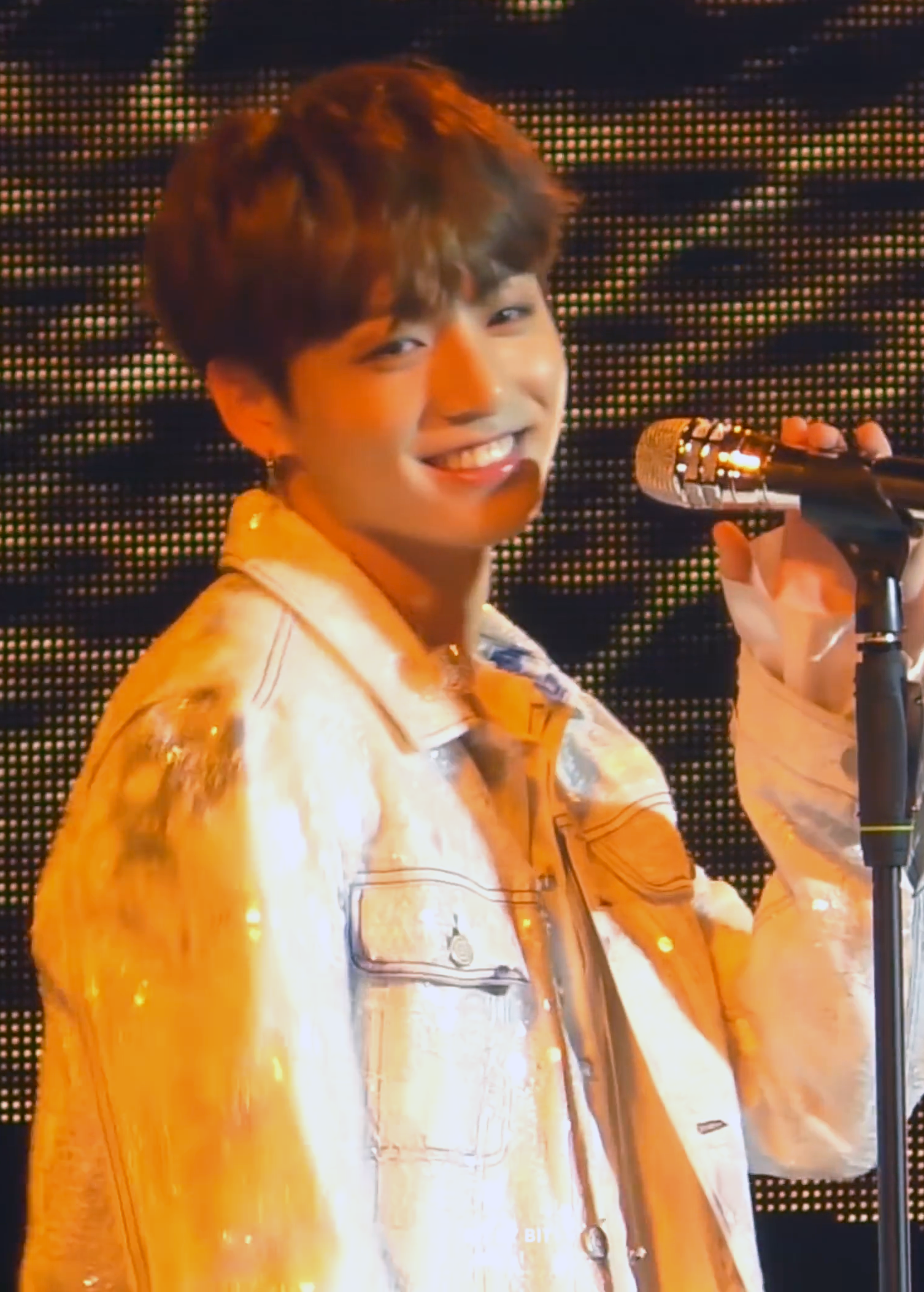 Jungkook performing the song "Euphoria" during the BTS World Tour: Love Yourself at the Mercedes-Benz Arena in Berlin, 16 October 2018